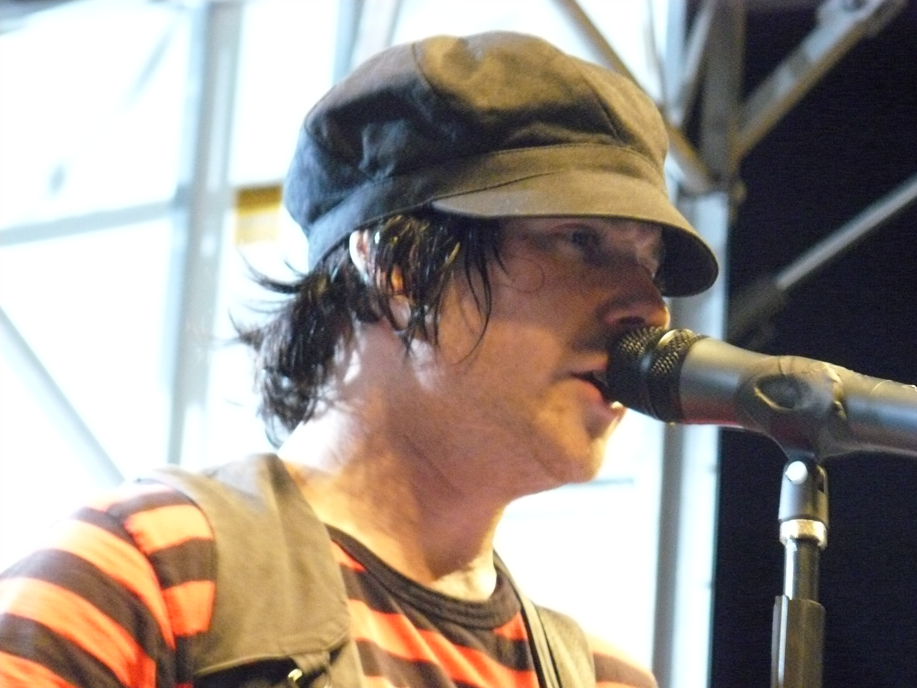 David Desrosiers of Simple Plan, Charlotte, NC June 28, 2008